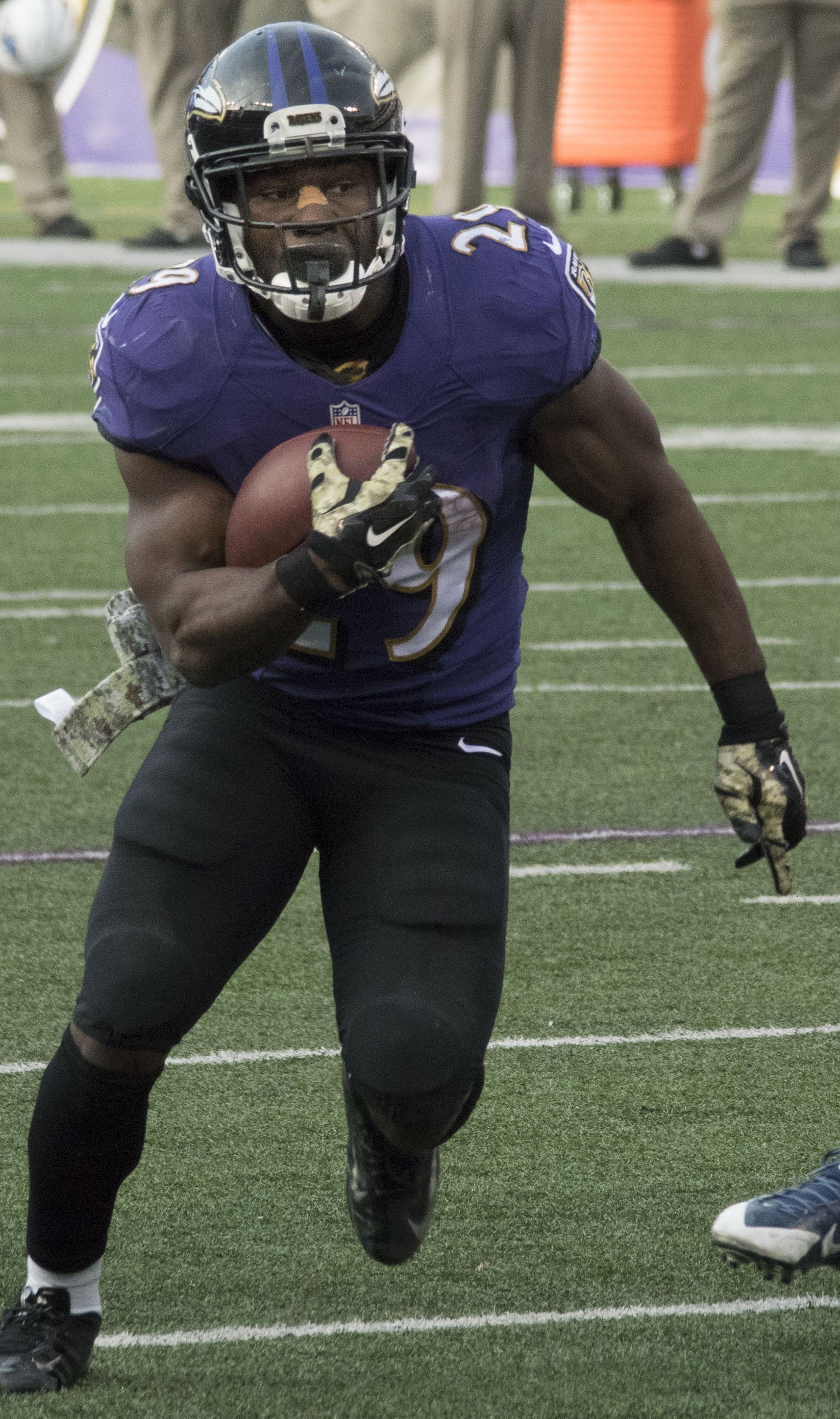 Baltimore Ravens running back, Justin Forsett, in a game against the Tennessee Titans on November 9, 2014.